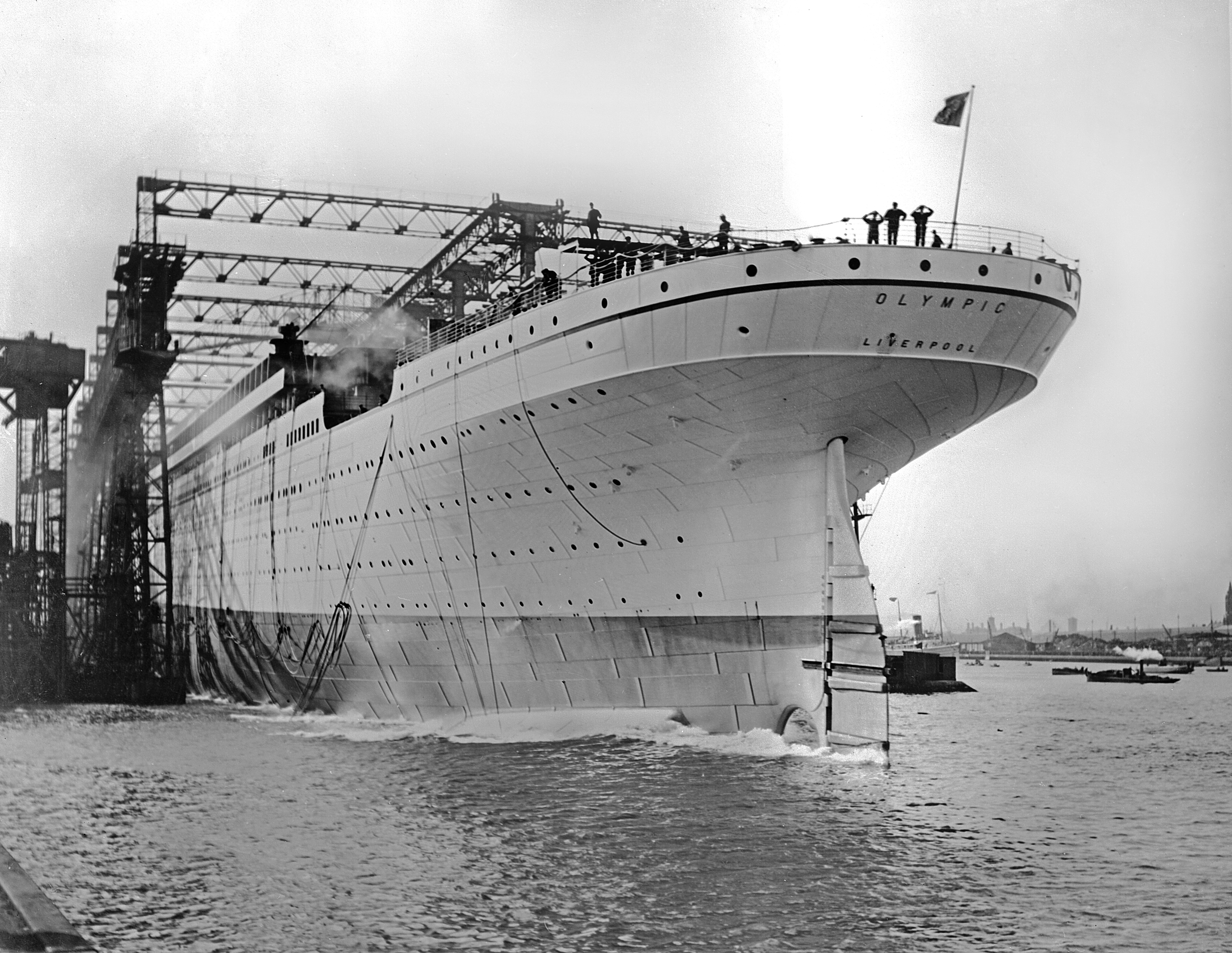 RMS Olympic Being launched